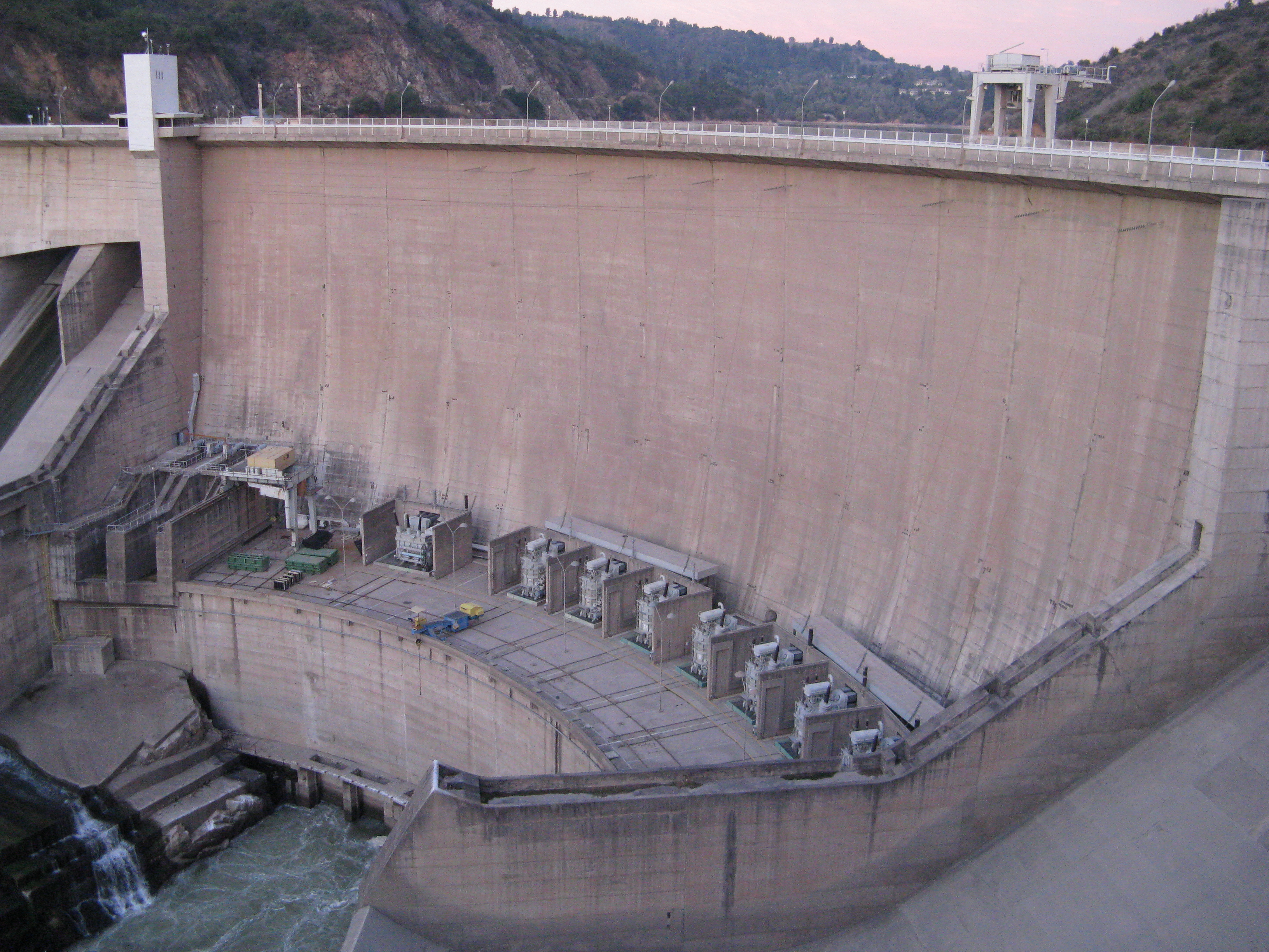 Rapel Dam in 2009.